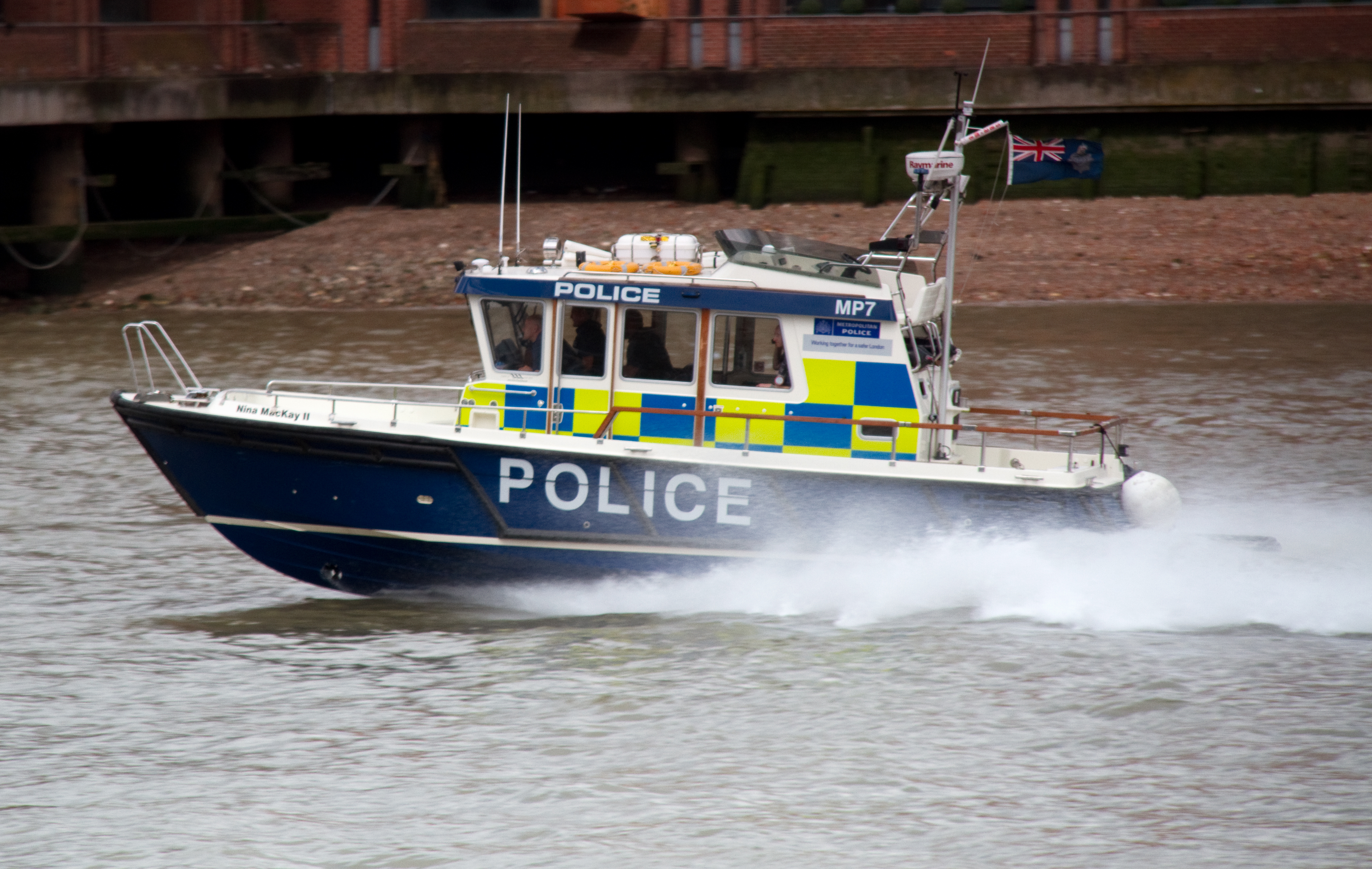 River Police at Speed